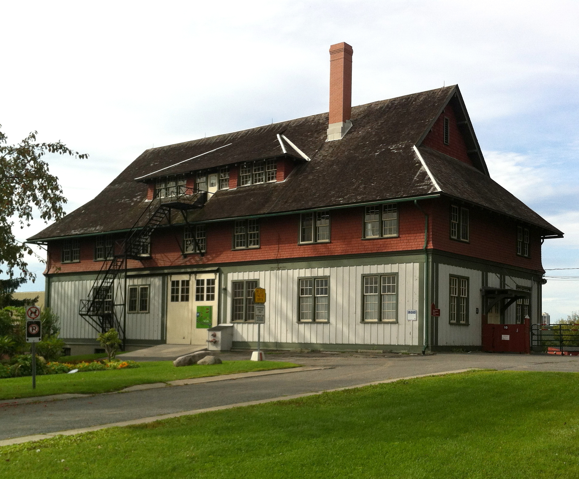 Cereal Barn (Building 76) at Central Experimental Farm in Ottawa